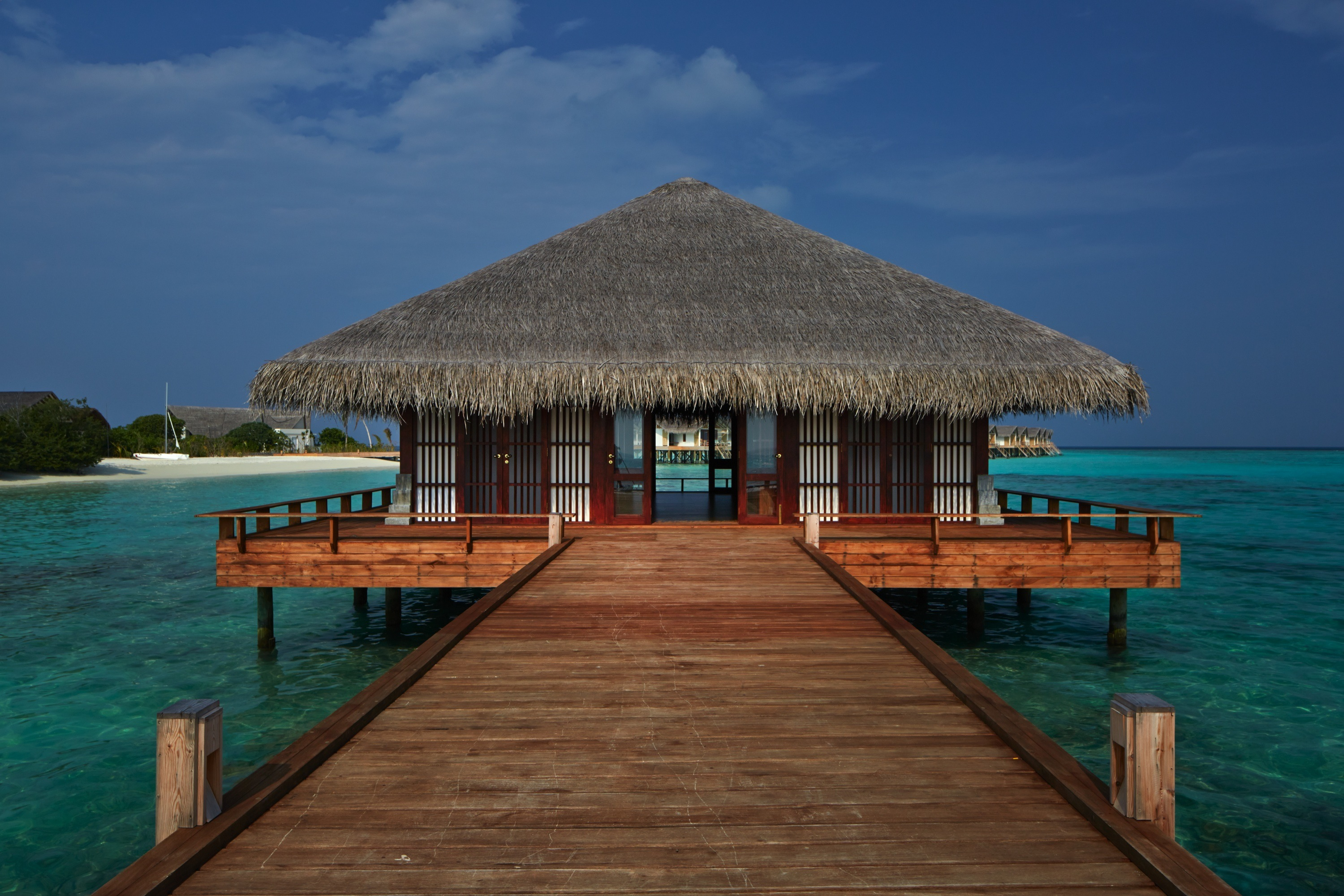 Loama Art Gallery is affiliated with the National Art Gallery, Maldives, and shows contemporary art from the Maldives